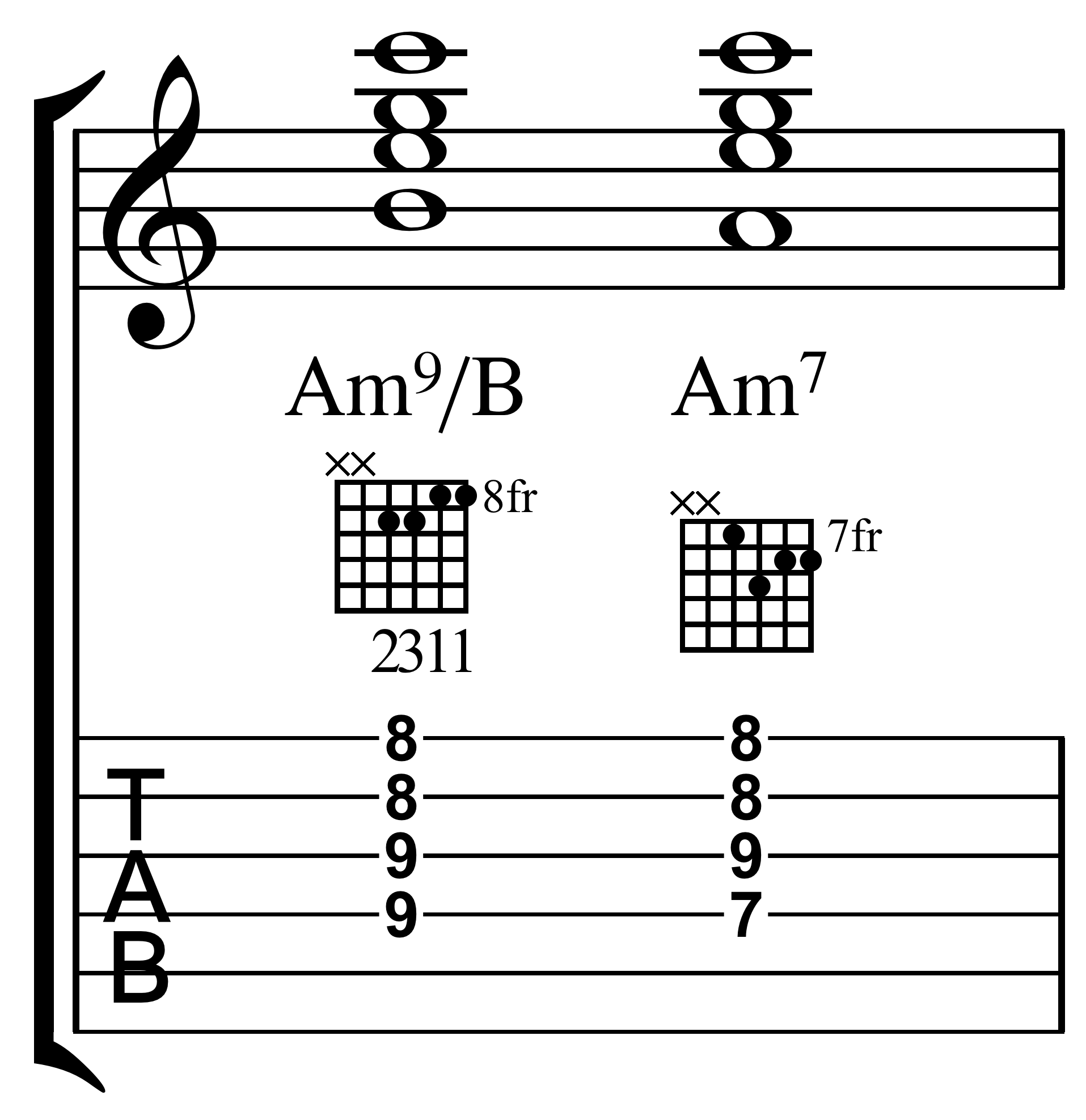 A minor ninth chord with assumed root, compared to A minor seventh chord.